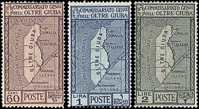 Jubaland (Trans-Juba/Oltre Giuba) postage stamps showing maps of the colony